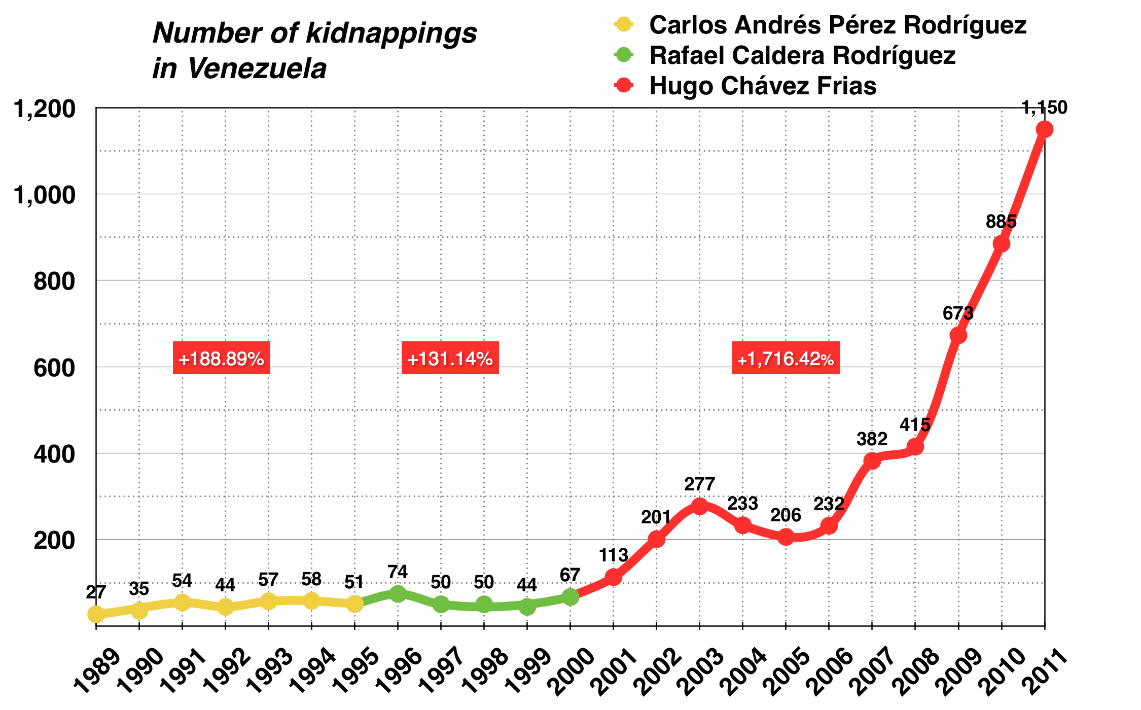 Kidnappings in Venezuela for 1989 to present under different presidencies.